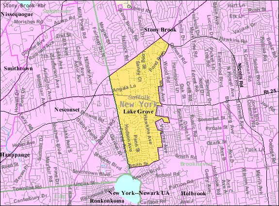 U.S. Census 2000 reference map for Lake Grove